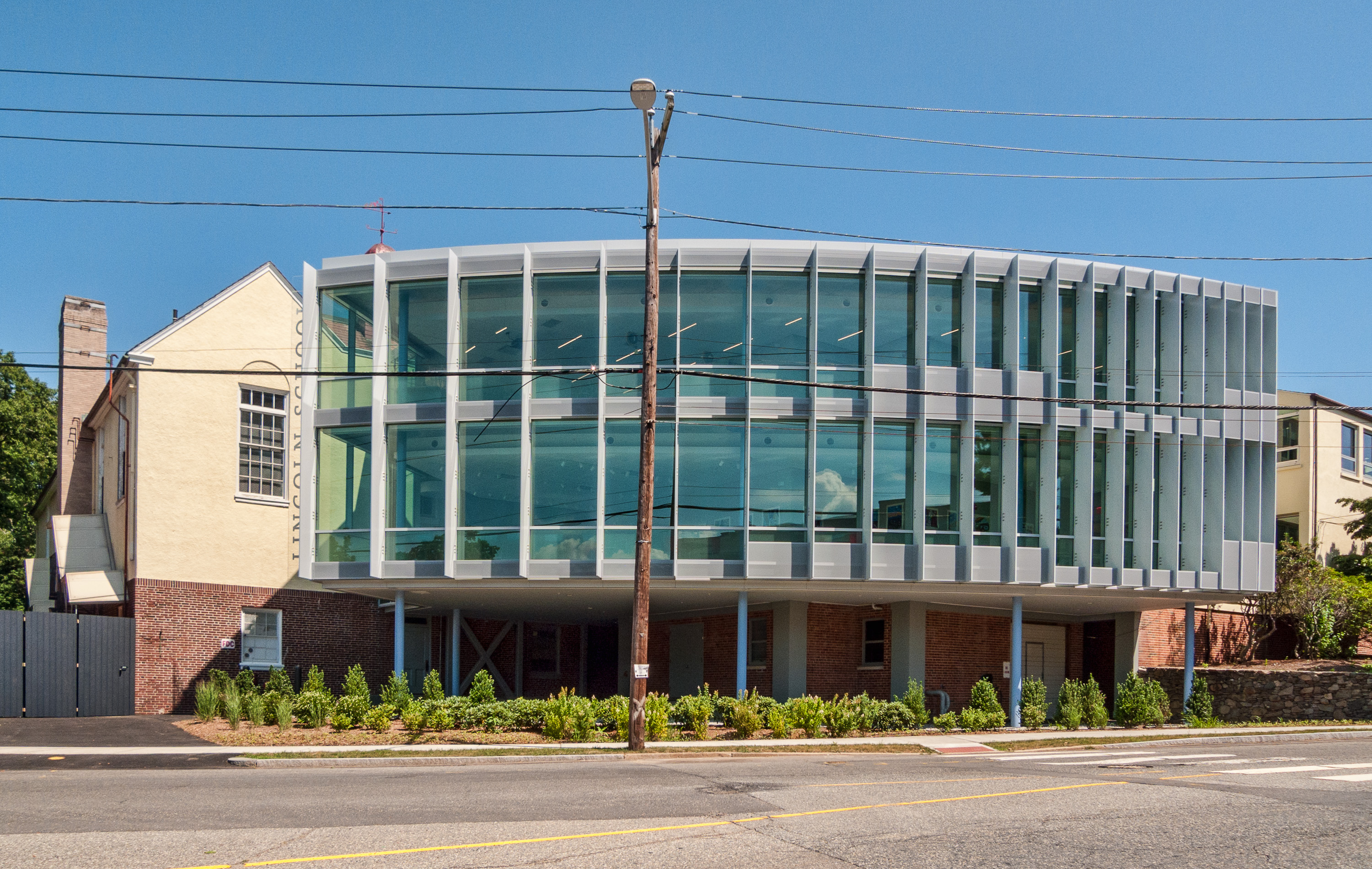 STEAM Hub for Girls, a two-story addition to the Lincoln School on Blackstone Boulevard. Designed by LLB Architects, completed May 2018.